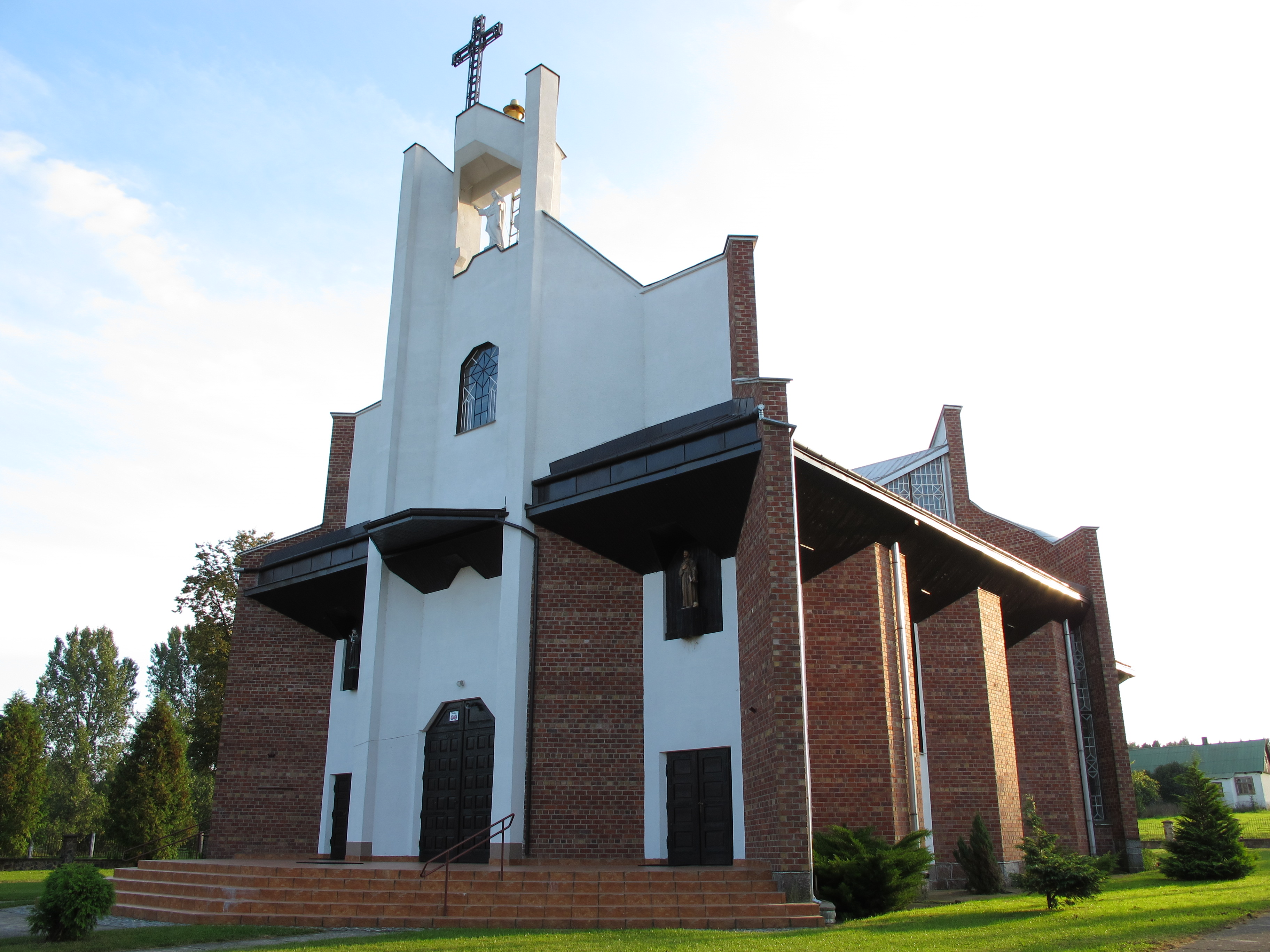 Sacred Heart of Jesus church in Jaświły, gmina Jaświły, podlaskie, Poland